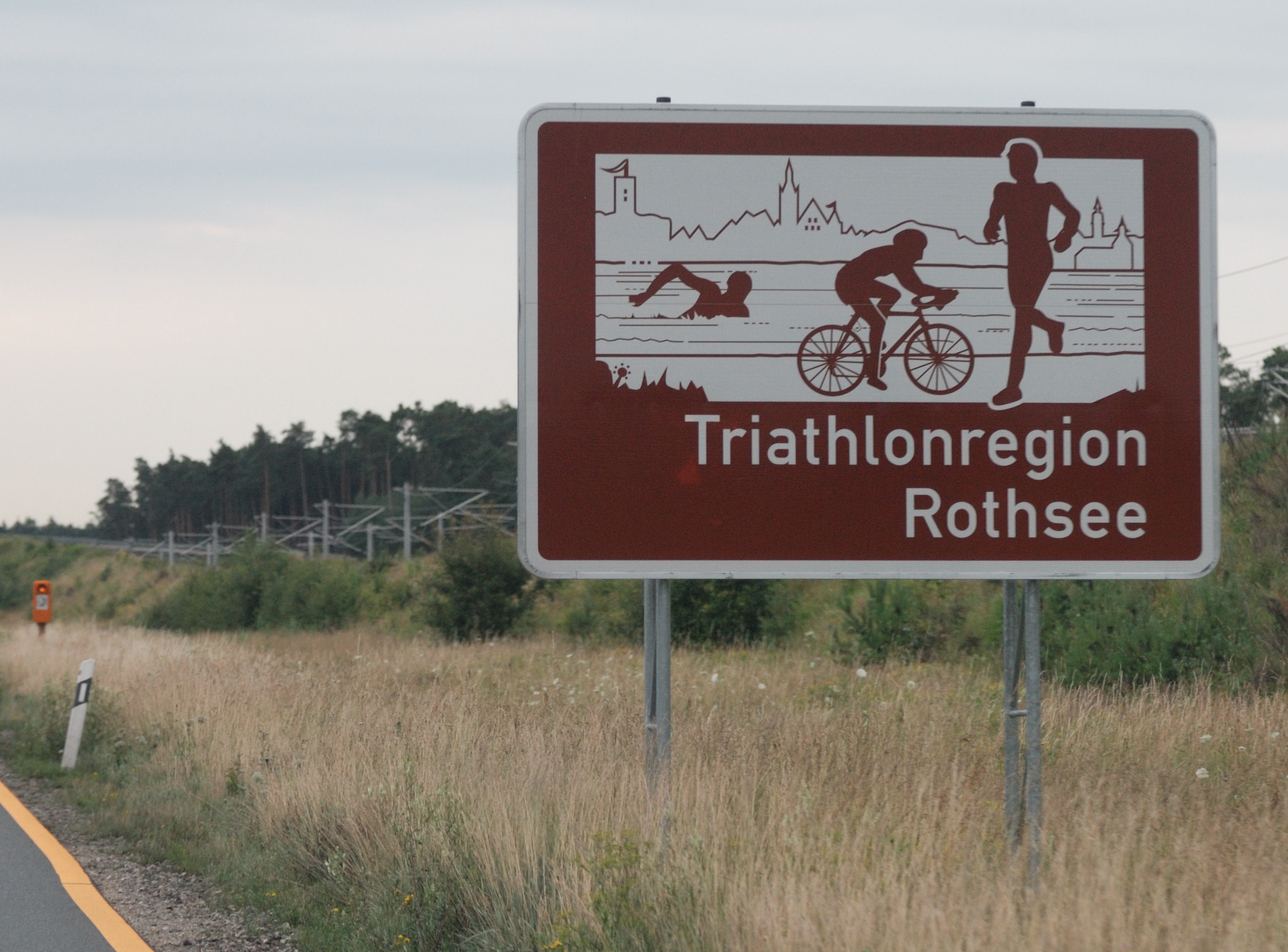 Road sign for the triathlon area Rothsee (Challenge Roth). Road shot from A 9.